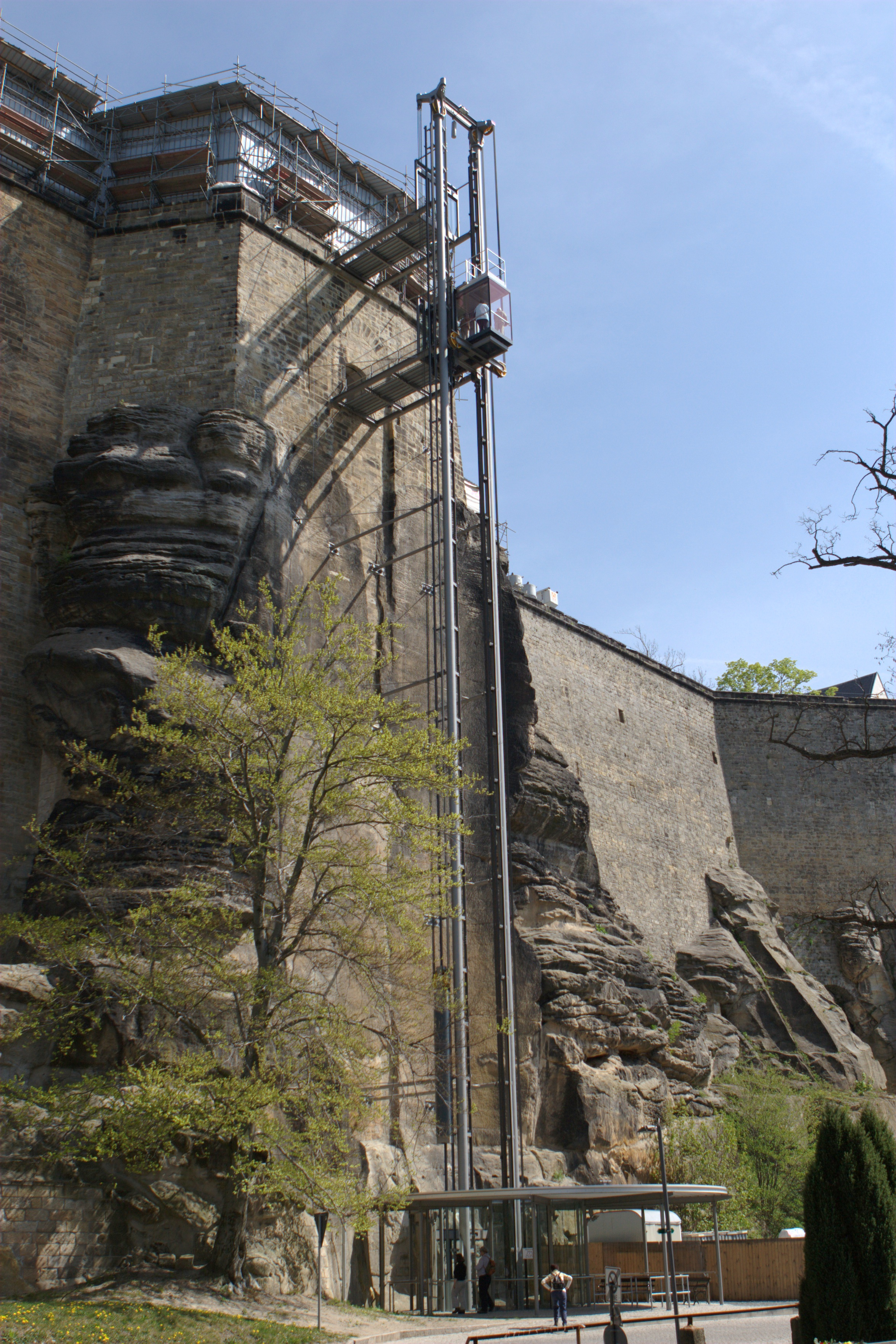 panorama lift at Königstein Fortress (Saxony in Germany)